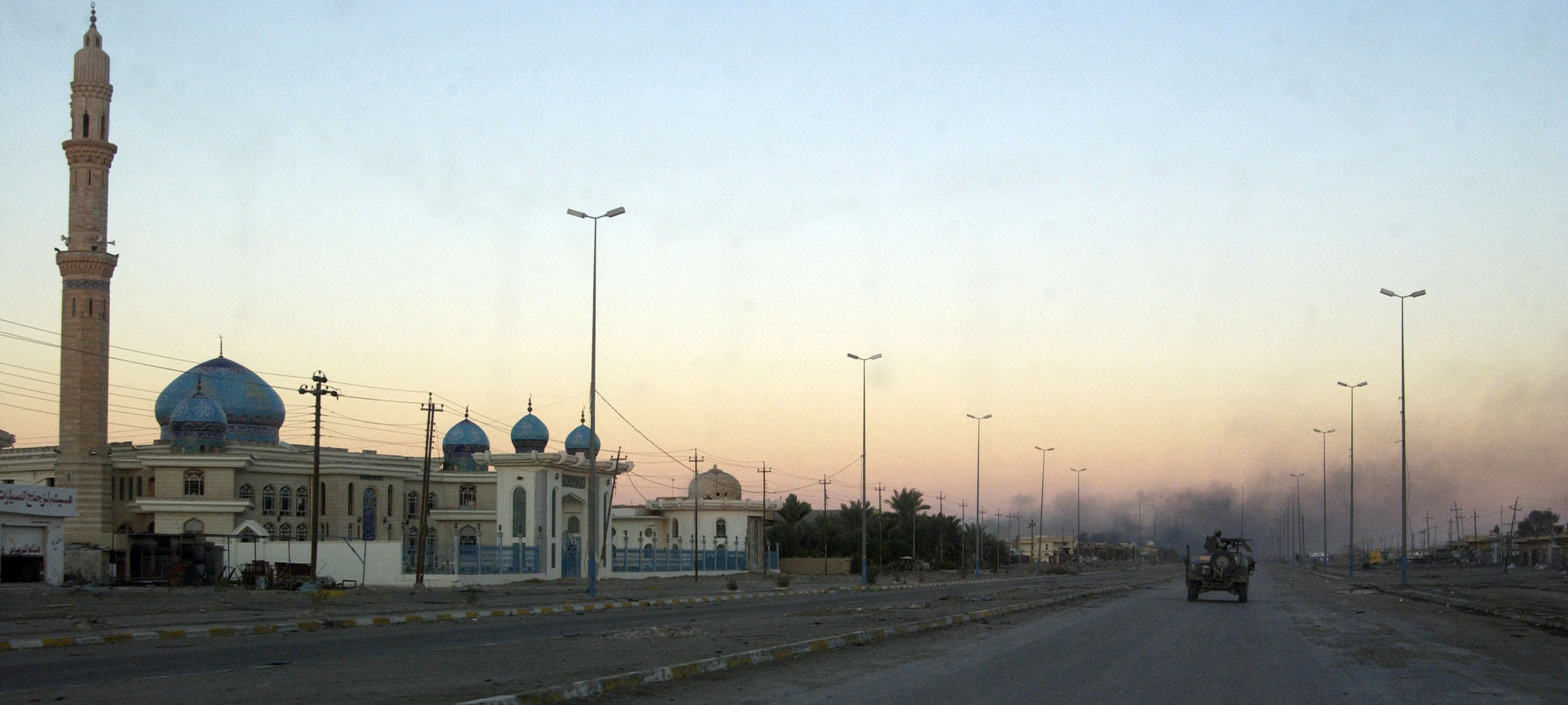 Fallujah, Iraq (Dec. 13, 2004) – Smoke rises from sporadic fighting between U.S. Marines and insurgents inside the city of Fallujah, Iraq. In other areas of the war torn city, the U.S. Marine Corps and Army are assisting Iraqi contractors in clean-up efforts after recent fighting. U.S. Navy photo by Journalist 1st Class Jeremy L. Wood (RELEASED)